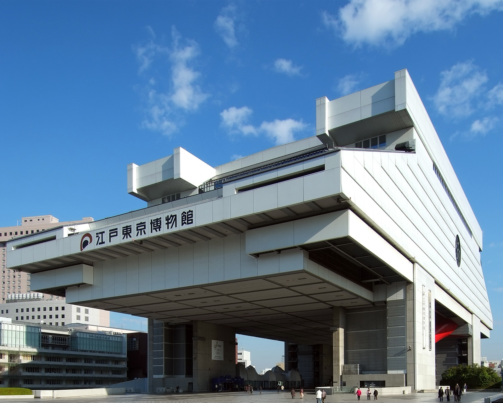 Edo-Tokyo Museum, at Ryogoku Tokyo Japan, design by Kiyonori Kikutake in 1993.